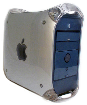 Stephen Gard